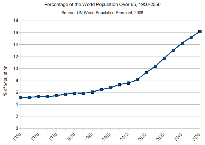 This is a chart depicting the increasing age of the world's population by illustrating the percentage that will be over 65 between 1950-2050. The source is the UN World Population Prospect, 2008.